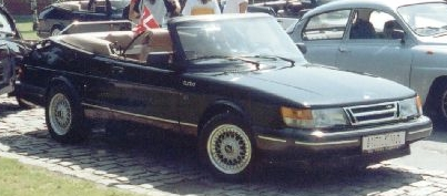 Classic SAAB 900 convertible, SOC 2004, Ebeltoft, Denmark. Replaced with pic made by MH 07:39, 2005 Jun 3 (UTC)